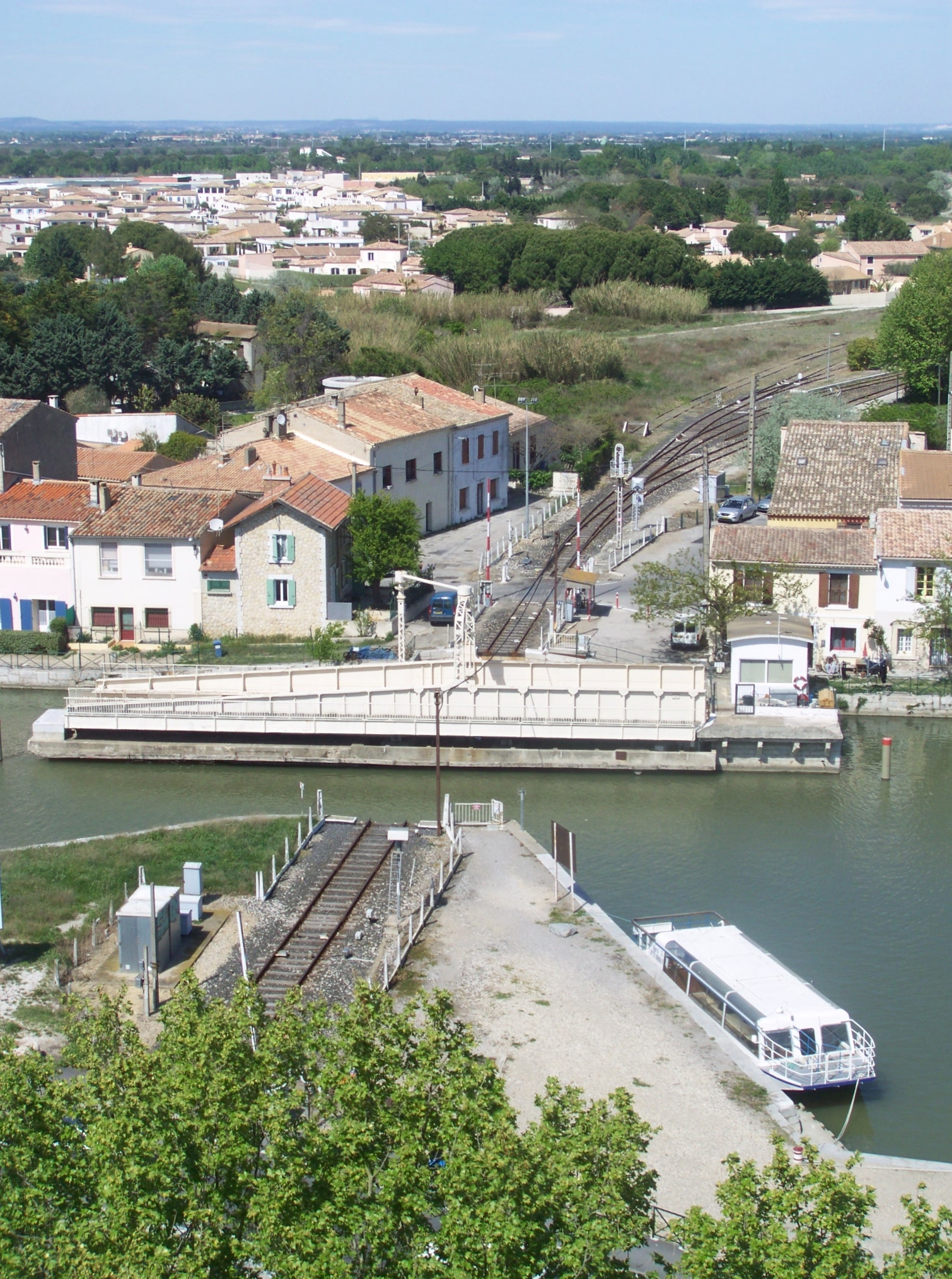 Railway swing bridge of Aigues-Mortes in Gard, France, seen from Constance tower on the fortifications.